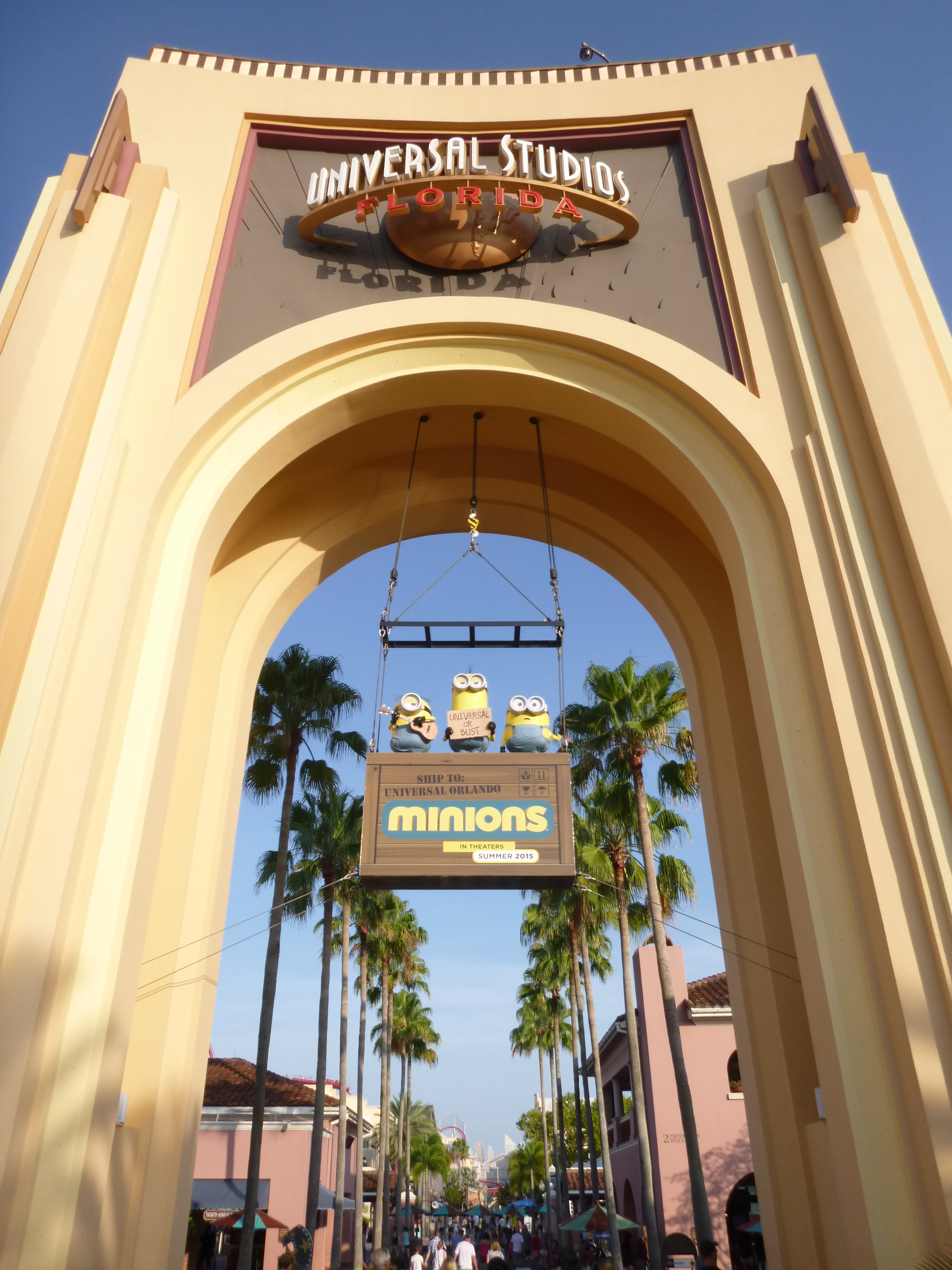 Entrance of Universal Studios Florida themed Minions film